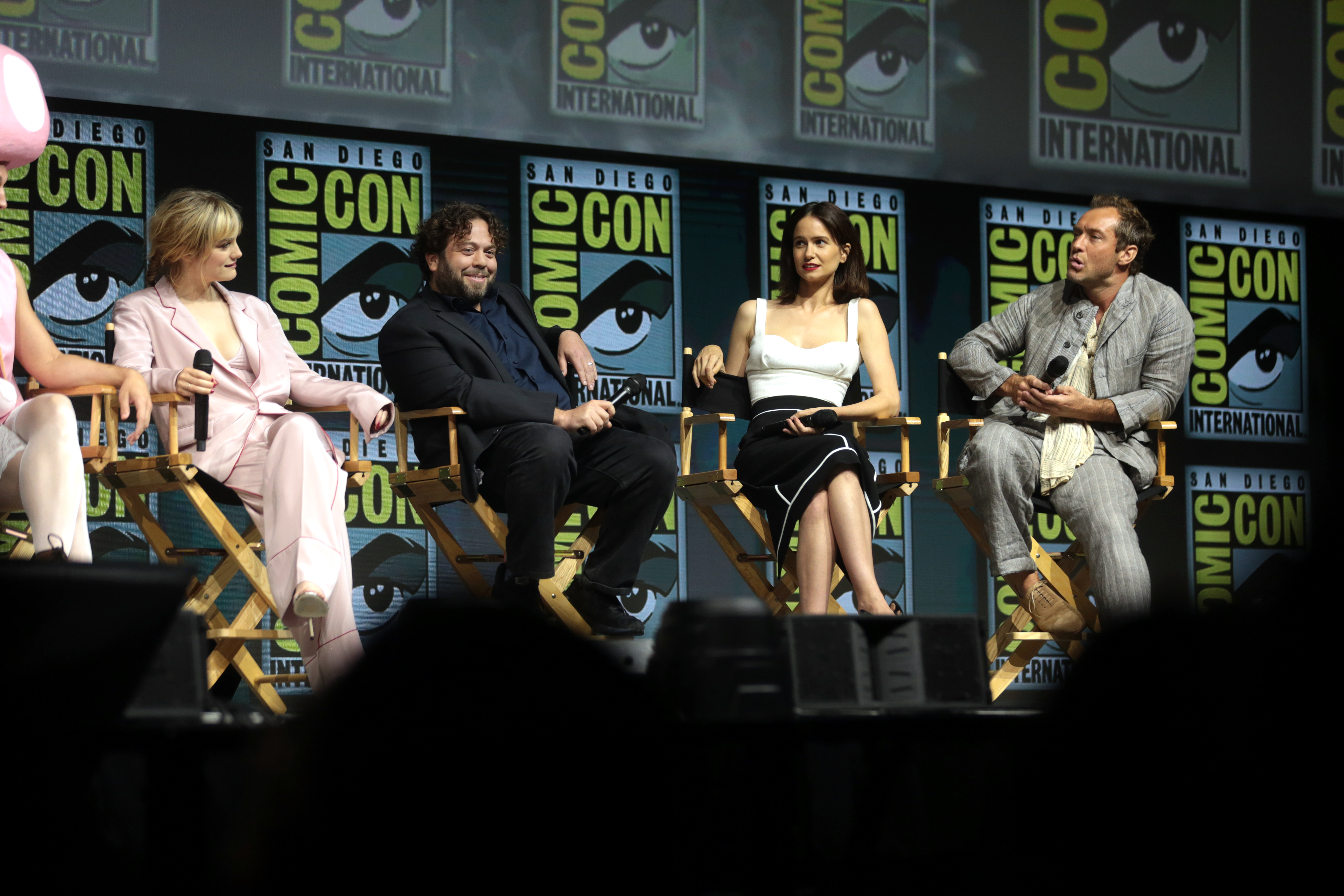 Alison Sudol, Dan Fogler, Katherine Waterston and Jude Law speaking at the 2018 San Diego Comic Con International, for "Fantastic Beasts: The Crimes of Grindelwald", at the San Diego Convention Center in San Diego, California.